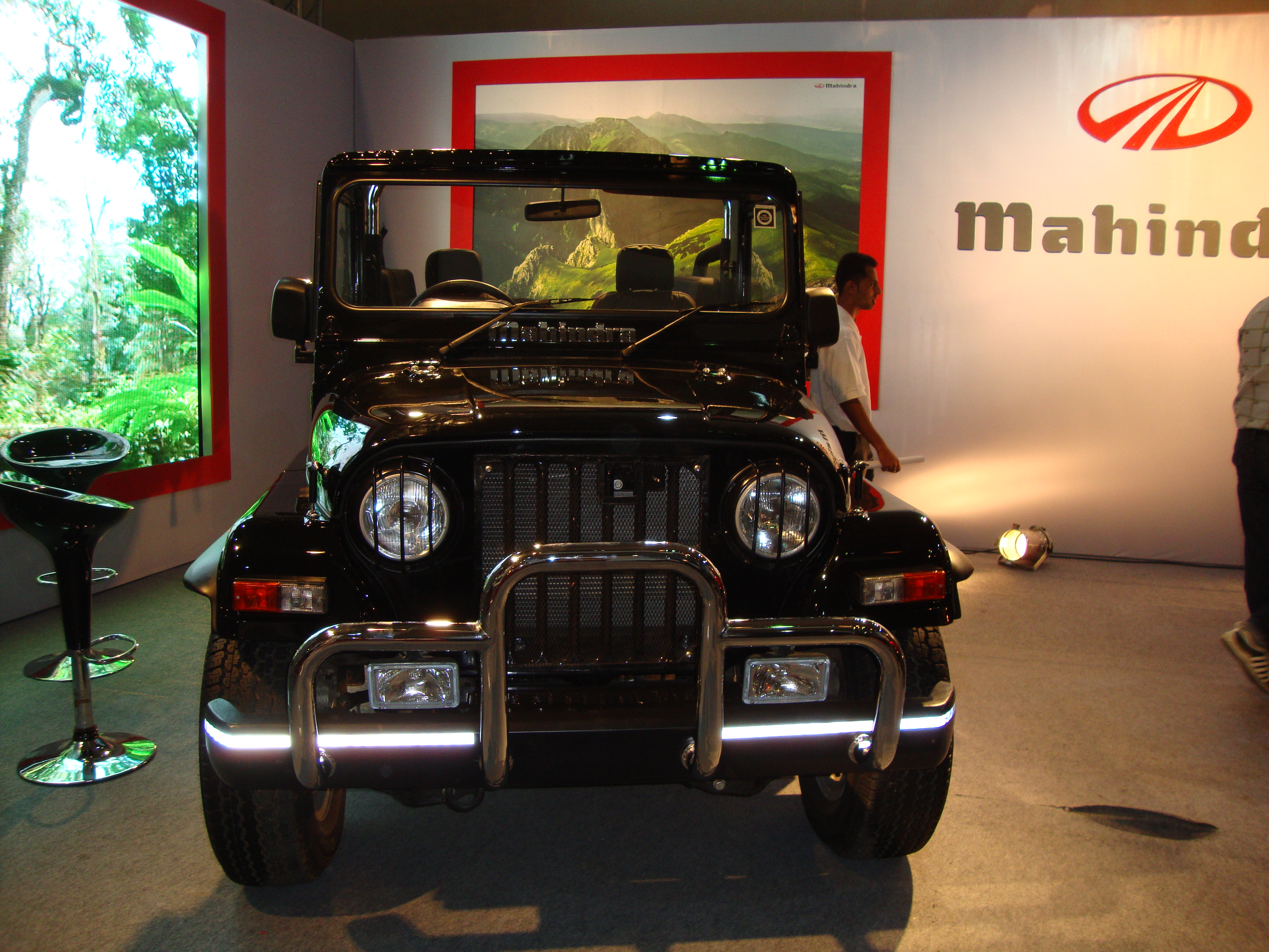 Mahindra & Mahindra Limited Indian Jeep